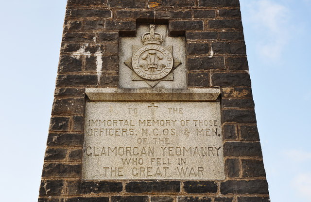 Monument commemorating the dead of the Glamorgan Yeomanry This plaque is on the north face of the monument.